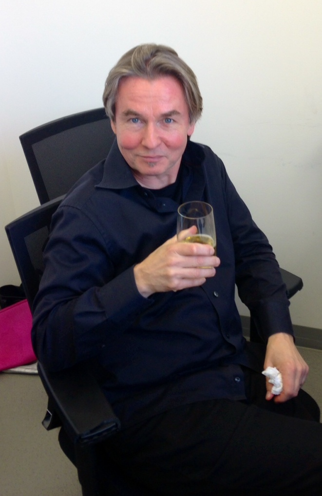 Esa-Pekka Salonen at Apple store in Berlin, after his performance with the Philharmonia